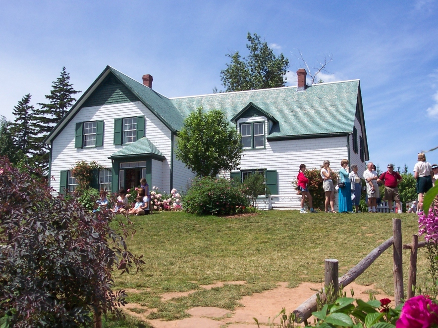 The house in Cavendish P.E.I. made famous by the book Ann of Green Gables by Lucy Maud Montgomery. Built somewhere between 1830 and 1870 Lucy never actually lived in the house but based her story upon it and other locations around the small town. The house was actually owned by the Mcnel family who were cousins of Lucy. The house is now a visitor centre and preserved for the nation.